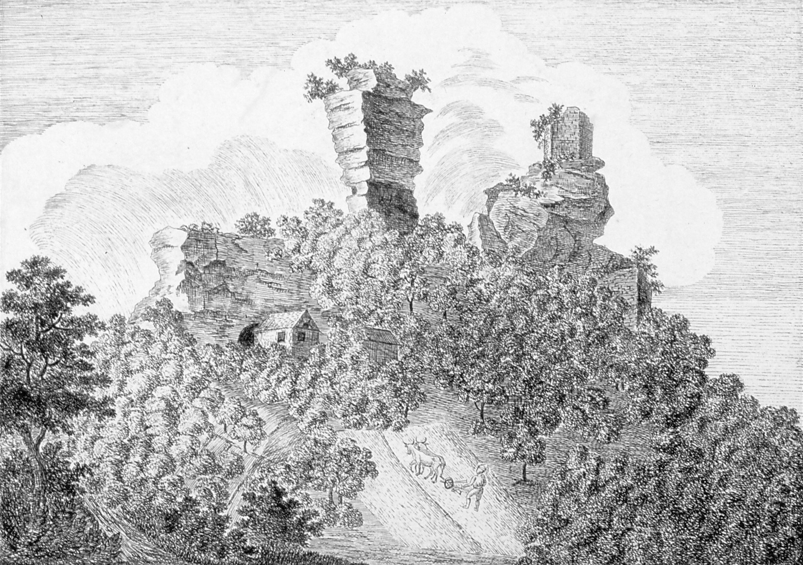 The château du Vieux-Windstein, Alsace